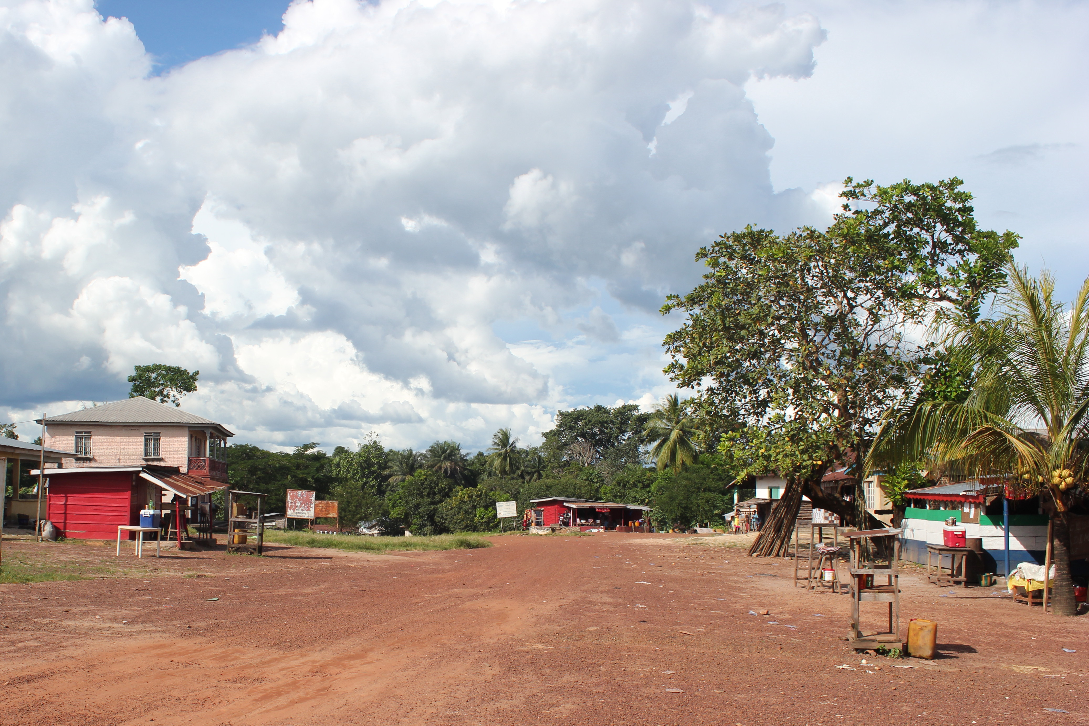 Pendembu or Gpendembu, which is halfway between Makeni and Kamakwie en route to Outamba-Kilimi Park